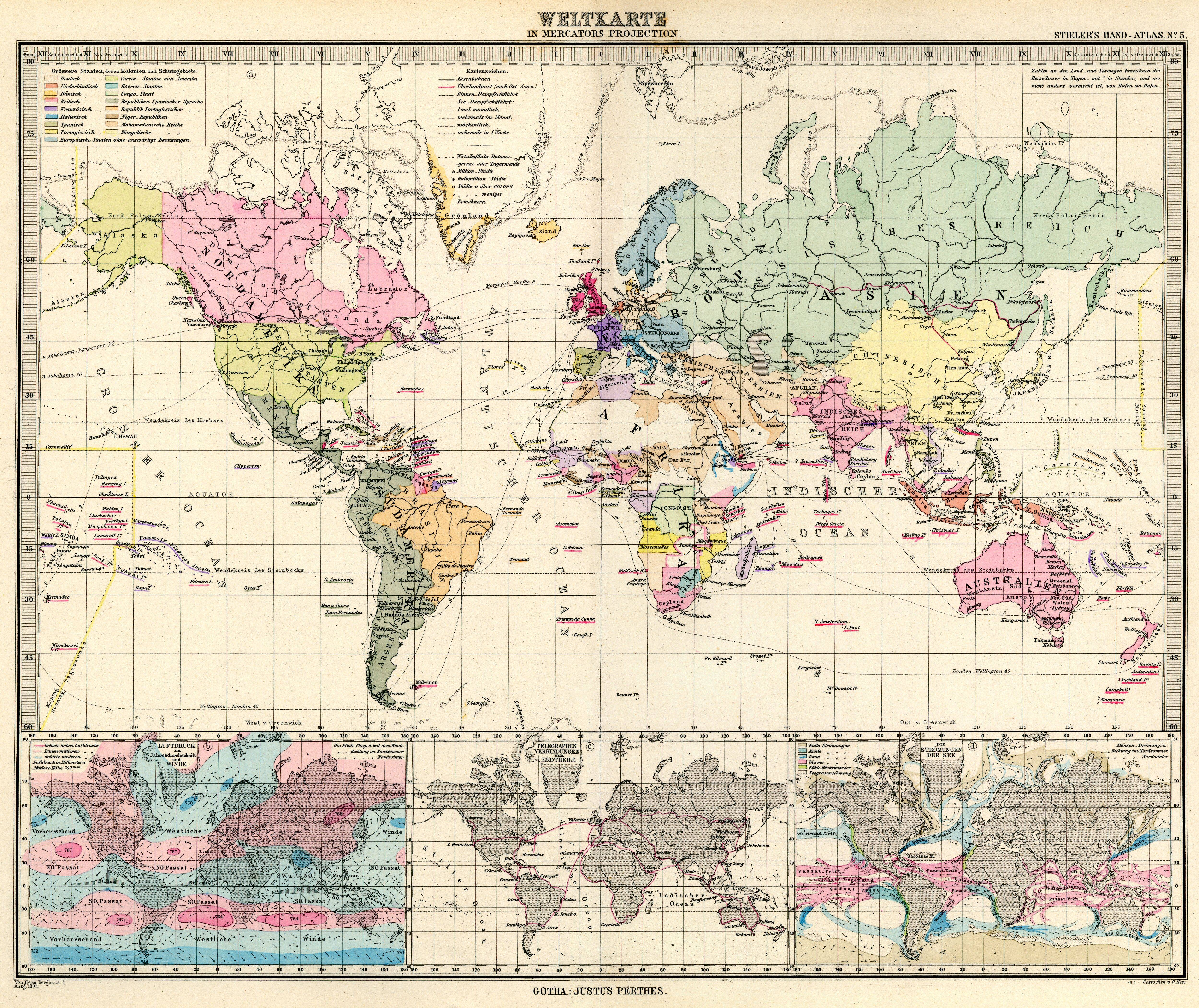 Map of the world on Mercator's projection